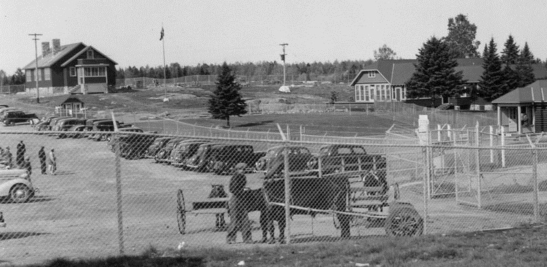 General view of [Dionne] Quintuplets' home.